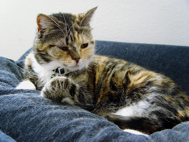 Tortoiseshell tabby cat (Felis silvestris catus), blind in one eye due to a bad herpes infection as a kitten.